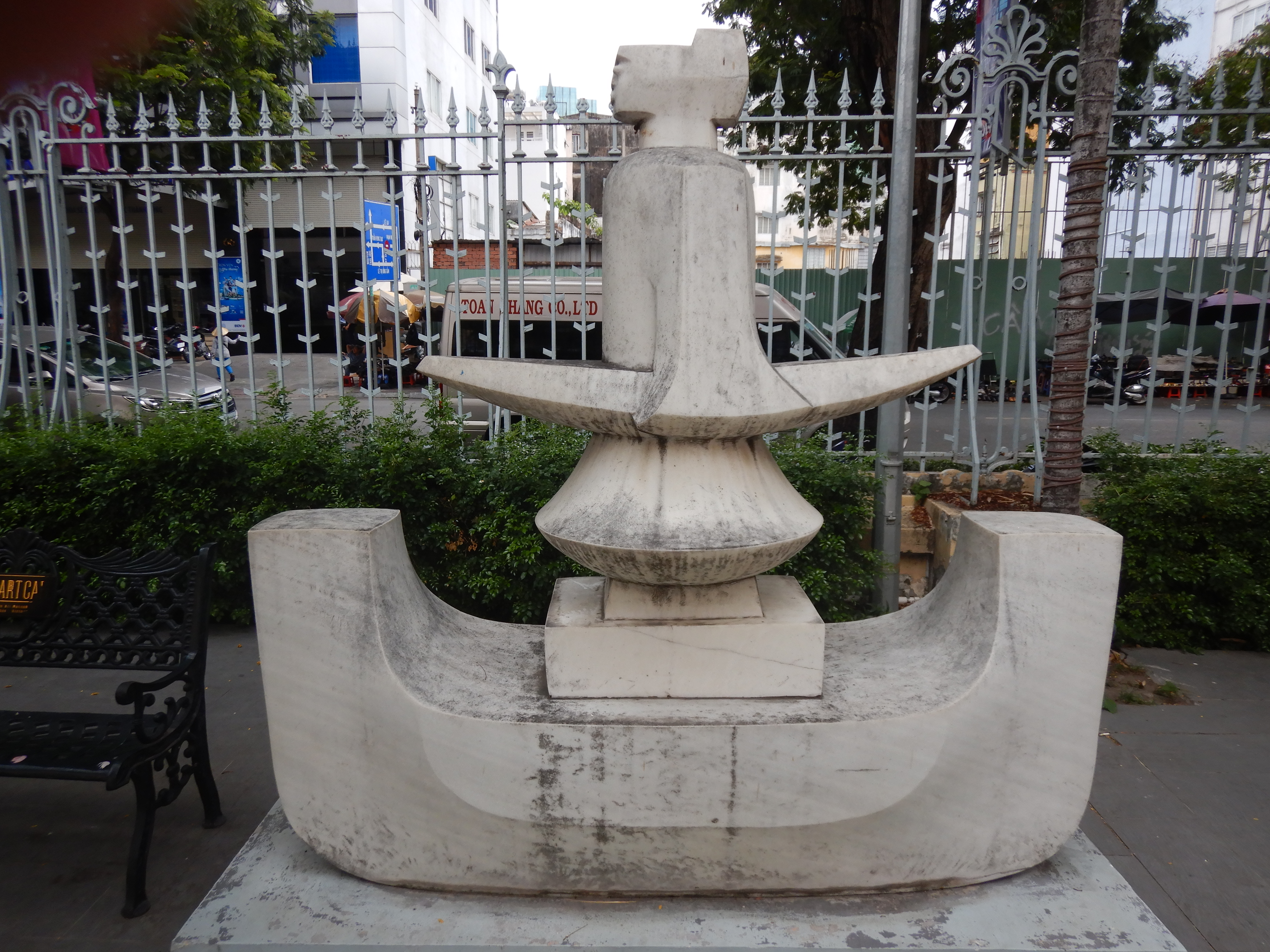 Stone statue "Broadening the country" in Ho Chi Minh City Museum of Fine Arts. It was made by Nguyễn Hải (1933-2012) in 2005. Dimensions: 180 × 185 × 60 cm.